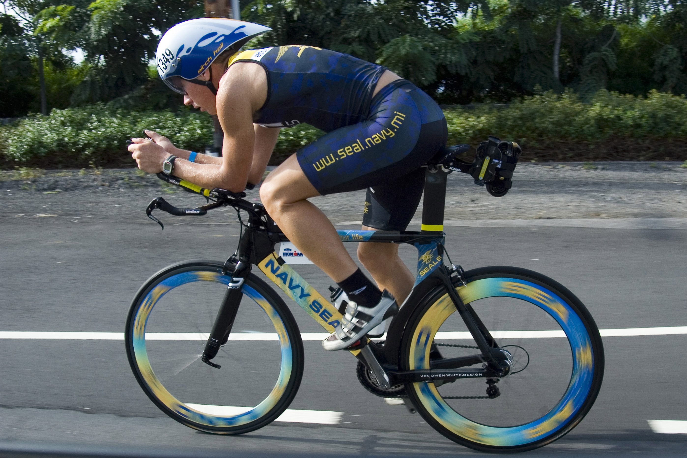 Kailua-Kona, Hawaii (Oct. 20, 2006) - Special Operations Chief (SEAL) Mitch Hall assigned to Naval Special Warfare Center road tests the Navy SEAL racing bike in Kona, Hawaii one day prior to the Ironman Triathlon. The bike Hall will be riding and his racing uniform were provided by Commander, Naval Recruiting Command (CNRC) to aid in SEAL (Sea, Air, Land) recruiting. The 2006 Ironman World Championship marks the second time the Navy SEAL was officially sponsored by his command to assist in the SEAL recruiting efforts. U.S. Navy photo by Mass Communication Specialist 3rd Class Ben A. Gonzales (RELEASED)